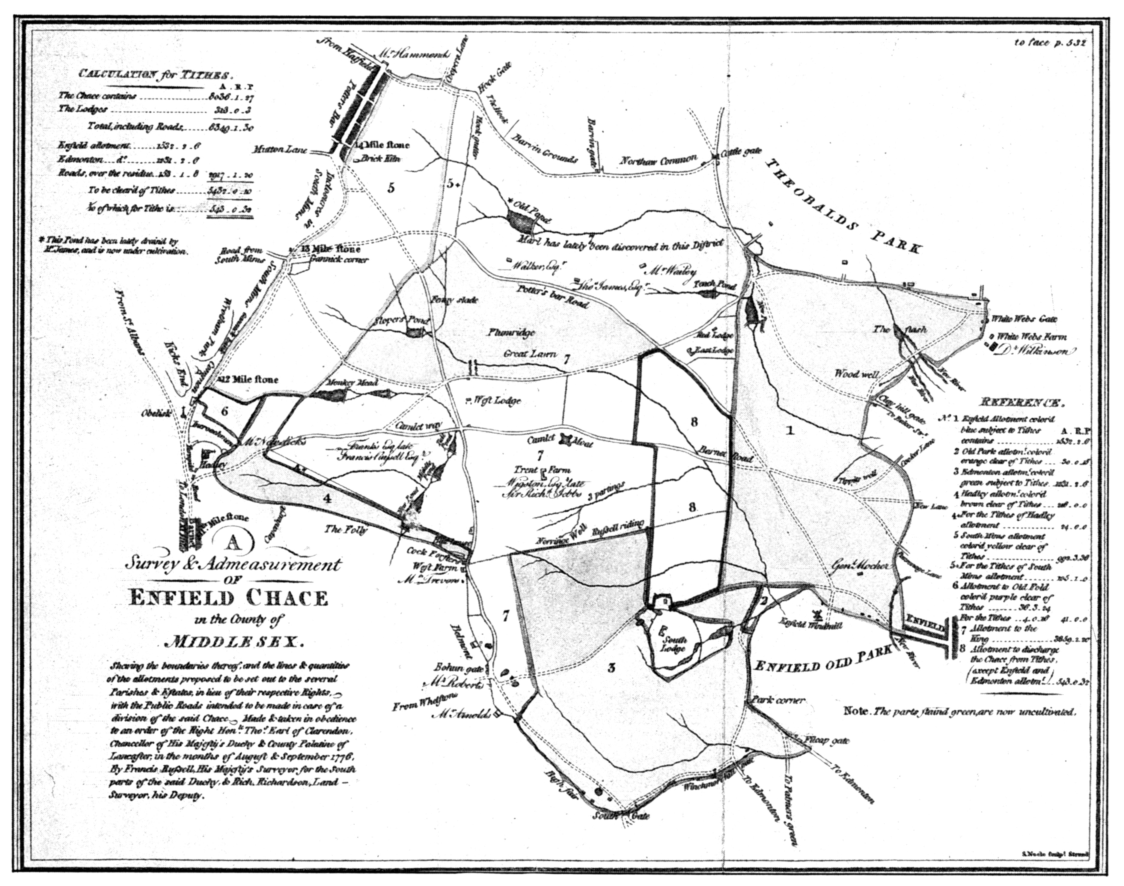 'A survey and Admeasurement of Enfield Chase in the County of Middlesex'. Plan of Enfield Chase and its boundaries, showing the sizes of the different divisions, proposed public road, and the areas and quantities of allotments assigned to various parishes and estates in lieu of their respective rights. Reference tables, and monetary calculation table for tithes. Scale: 1 inch to 20 chains. Drawn by J Russell, surveyor, and Richard Richardson, deputy surveyor.